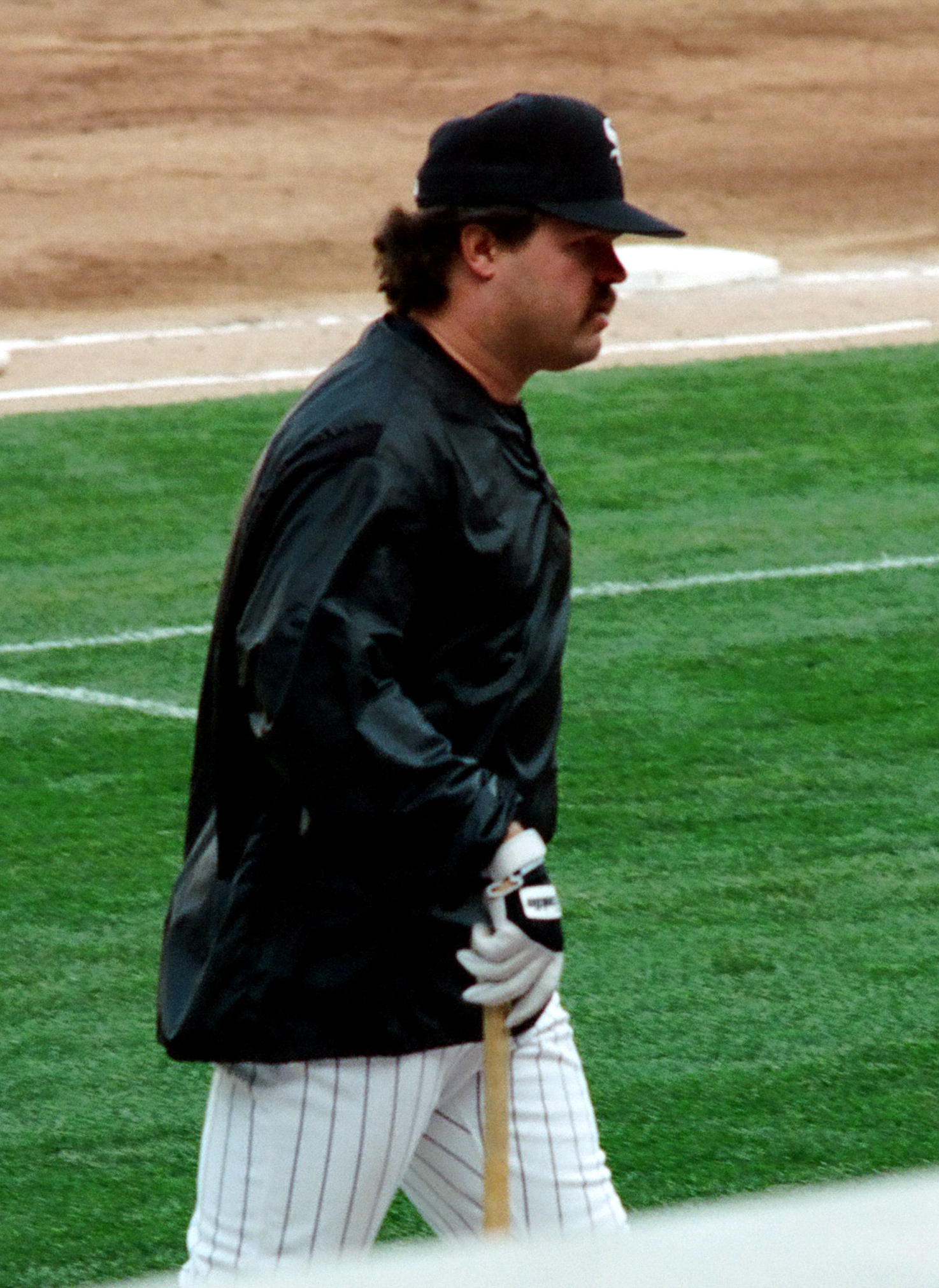 Chicago White Sox player Mike LaValliere, 1995.